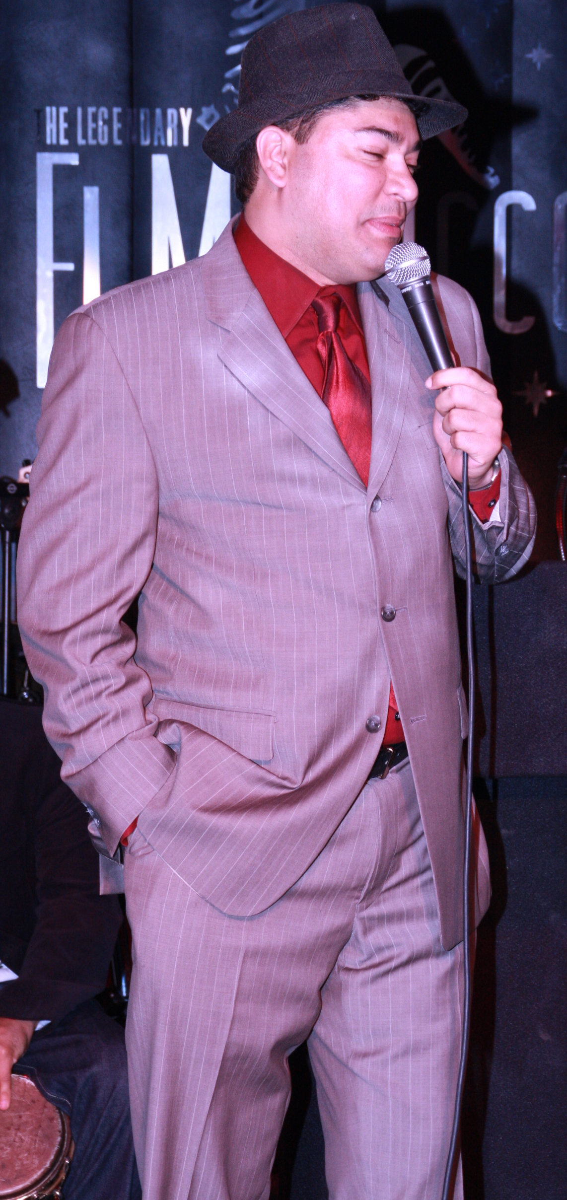 adjusted version of Image:Frederick_Martinez.jpg